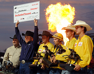 Chad Harden wins the 2009 chuckwagon races at the Calgary Stampede